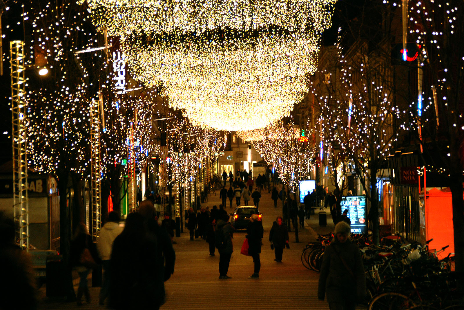 Aarhus walking street under the starry sky